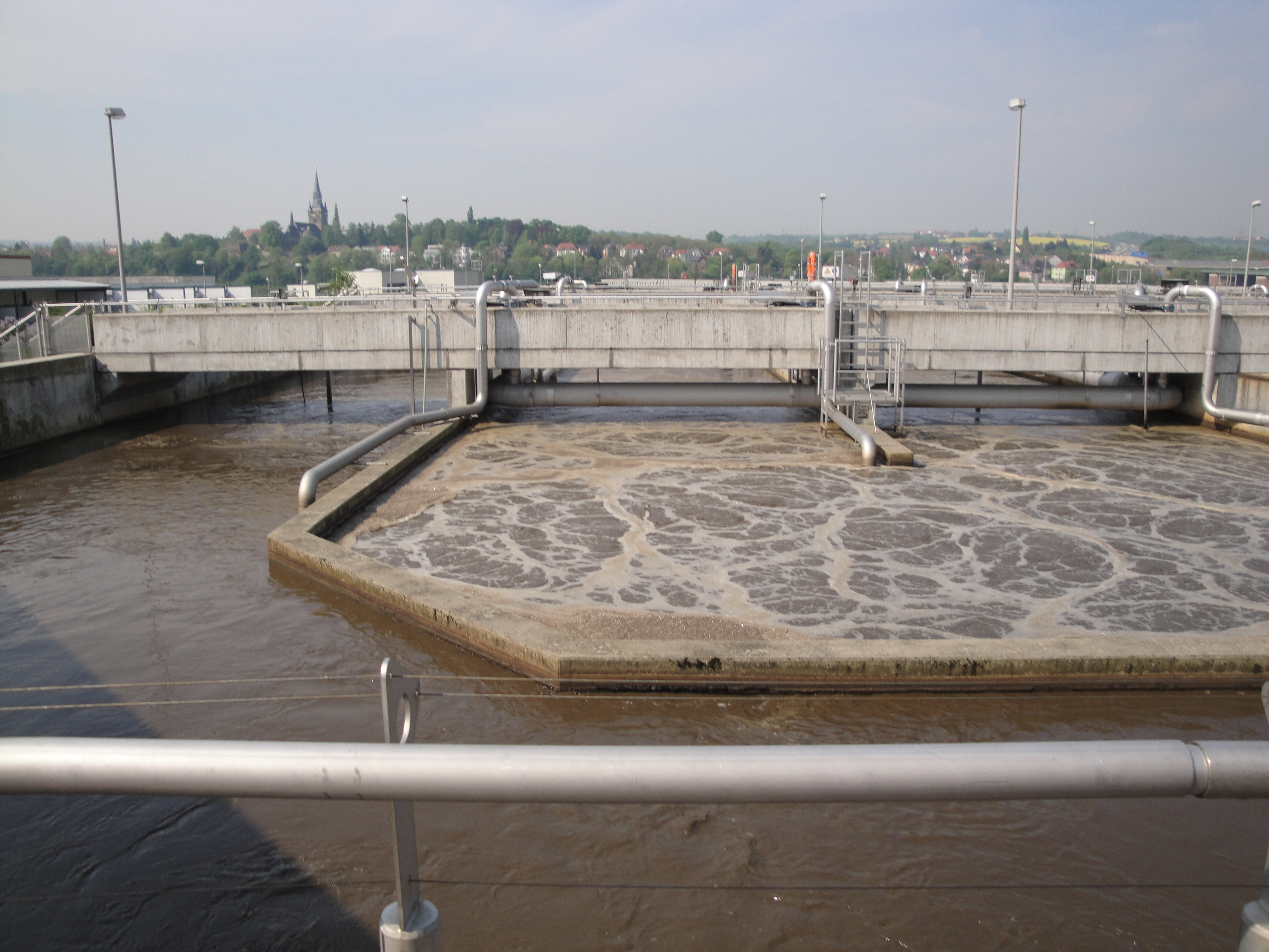 Kläranlage Dresden Kaditz - Wastewater treatment plant in Dresden, Saxony